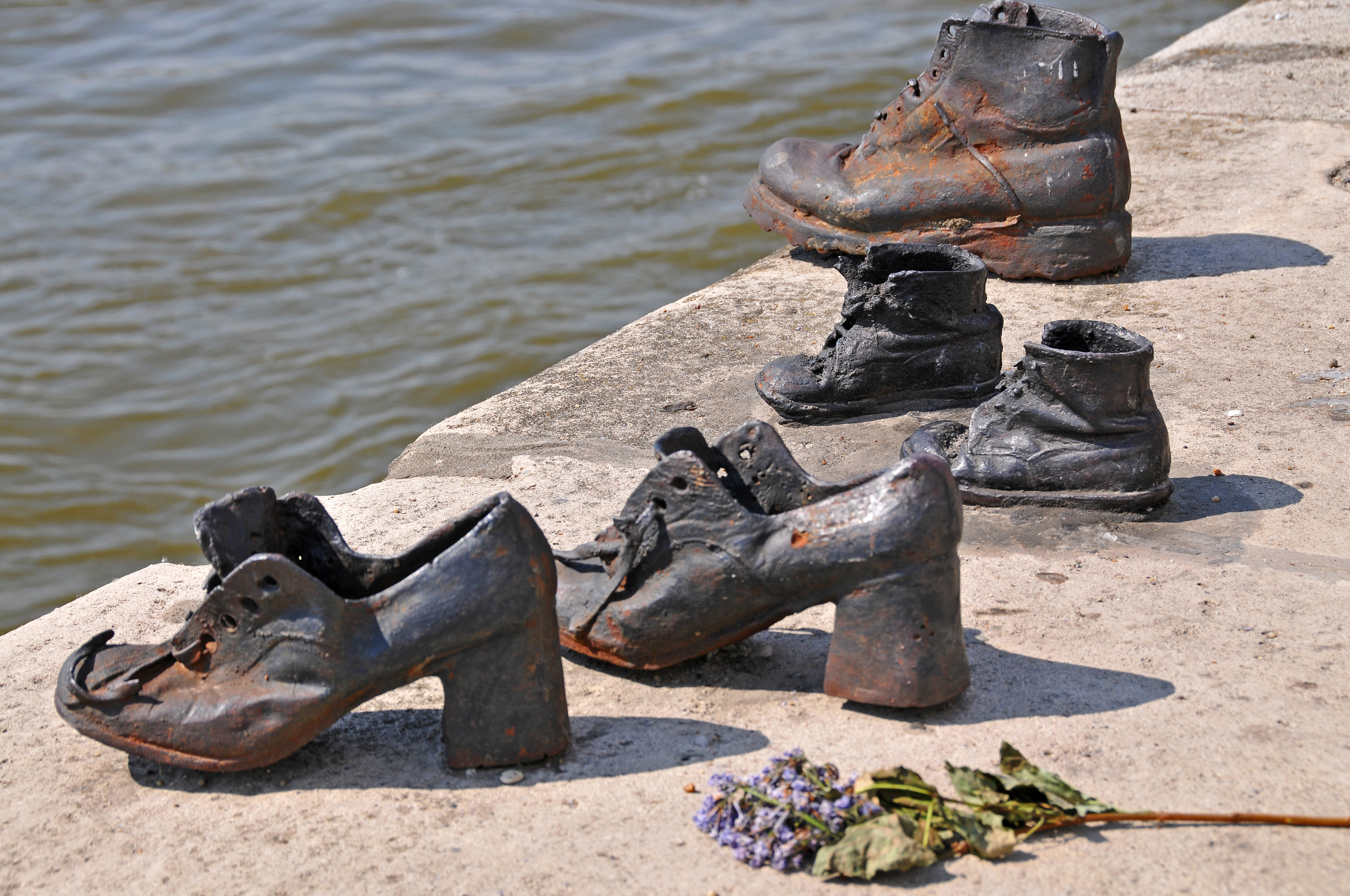 PLEASE, no multi invitations, glitters or self promotion in your comments, THEY WILL BE DELETED. My photos are FREE for anyone to use, just give me credit and it would be nice if you let me know, thanks - NONE OF MY PICTURES ARE HDR. The Shoes on the Danube is a memorial on the bank of the Danube River in Budapest. It honors the Jews who were killed by fascist Arrow Cross militiamen in Budapest during World War II. They were ordered to take off their shoes, and were shot at the edge of the water so that their bodies fell into the river and were carried away. It represents their shoes left behind on the bank. The sculptor created sixty pairs of period-appropriate shoes out of iron. Between 20% and 40% of Greater Budapest's 250,000 Jewish inhabitants died through Nazi and Arrow Cross Party genocide during 1944 and early 1945.